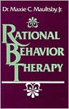 photo of Maultsby's Rational Behavior Therapy